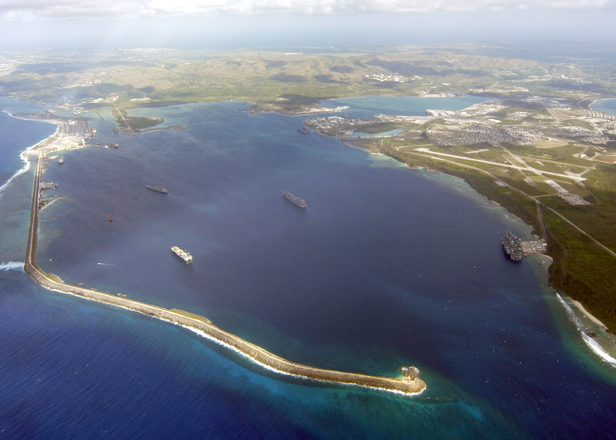 SANTA RITA, Guam (Feb. 25, 2003) An aerial view of Apra Harbor on U.S. Naval Base Guam is seen during a fly-by, Feb. 25, 2003. Naval Base Guam supports the U.S. Pacific Fleet. (U.S. Navy photo/Released)